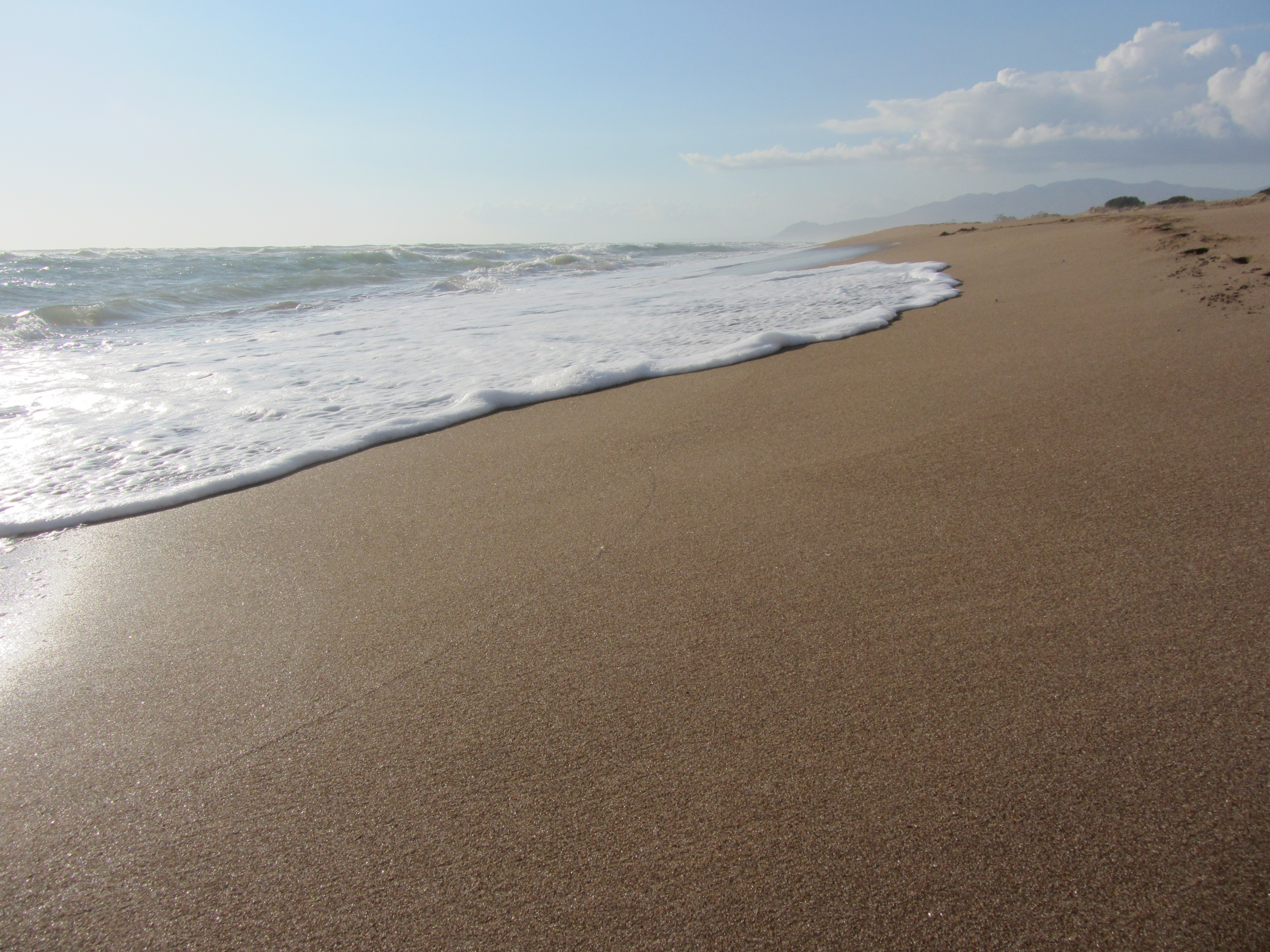 This is a photography of Natura 2000 protected area with ID GR2330008